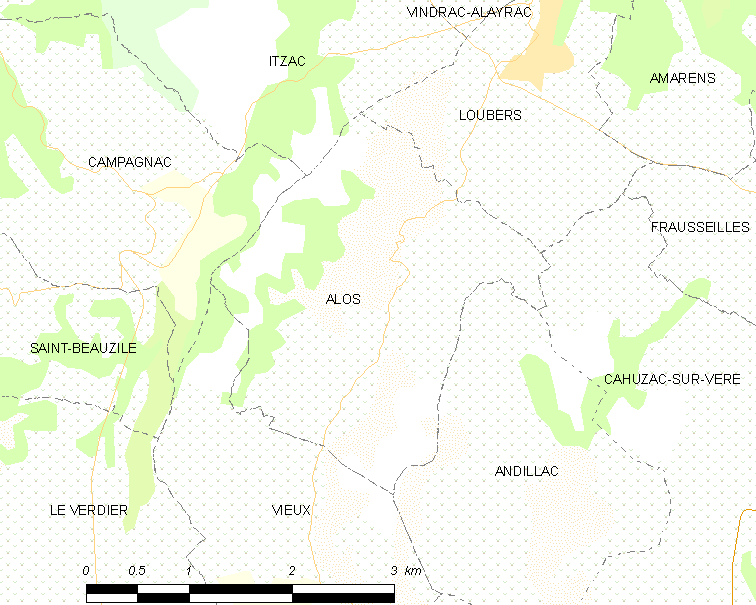 Map of French municipality Alos